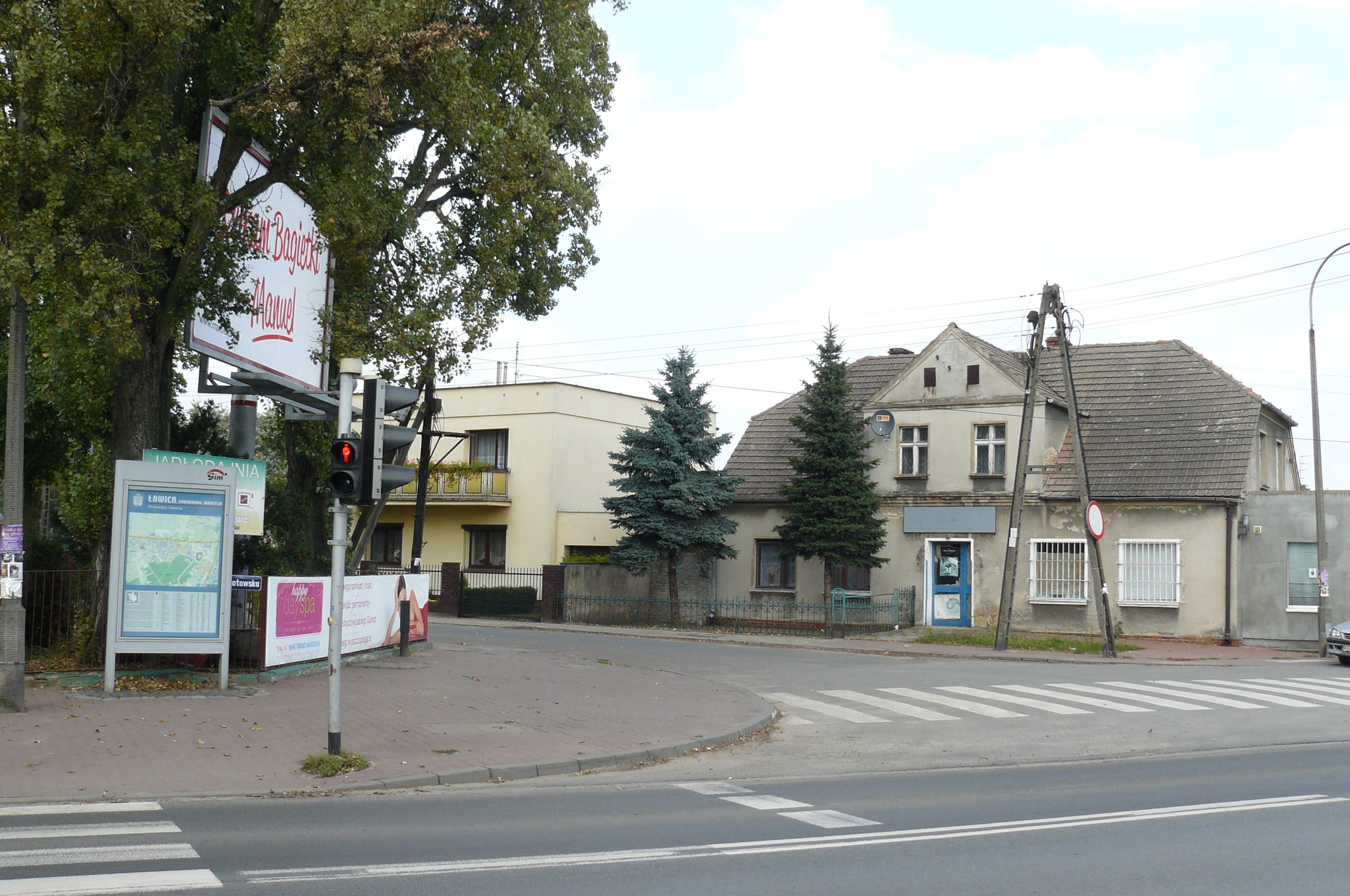 Old Part of Lawica District, Poznan.